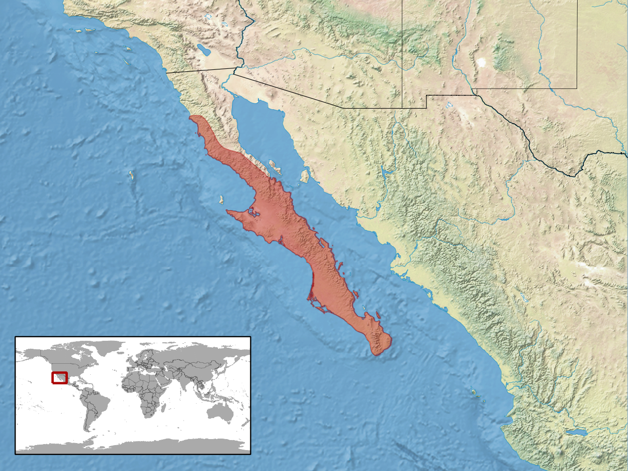 geographic distribution of Crotalus enyo (Native: Mexico)